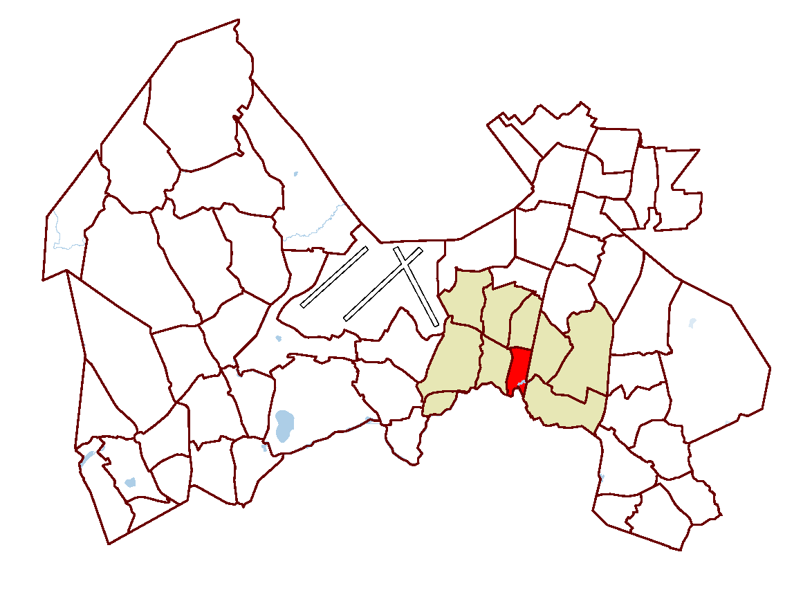 District of Tikkurila (marked red), within Tikkurila service area (marked light brown) in Vantaa, Finland